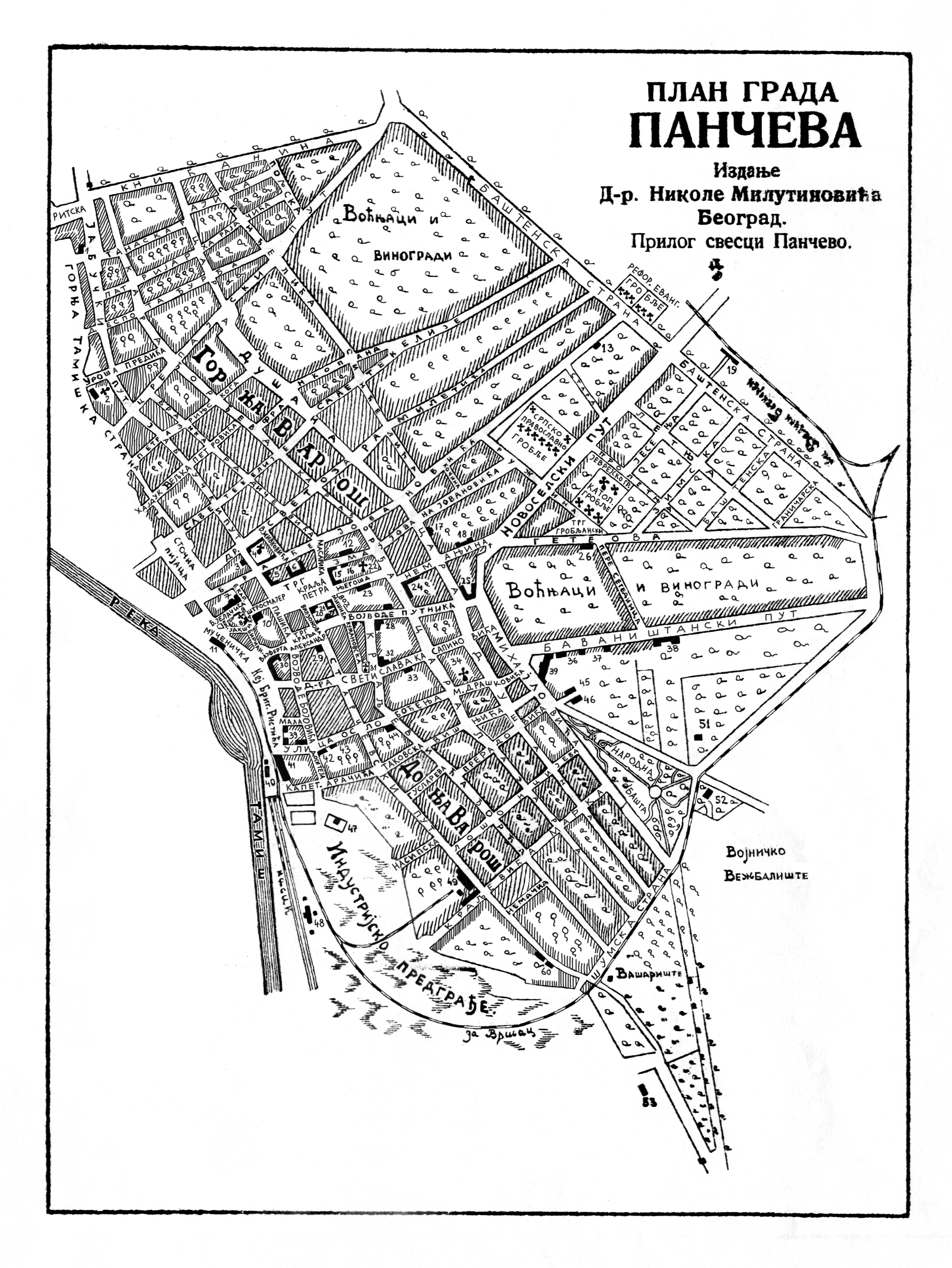 City map Pančevo